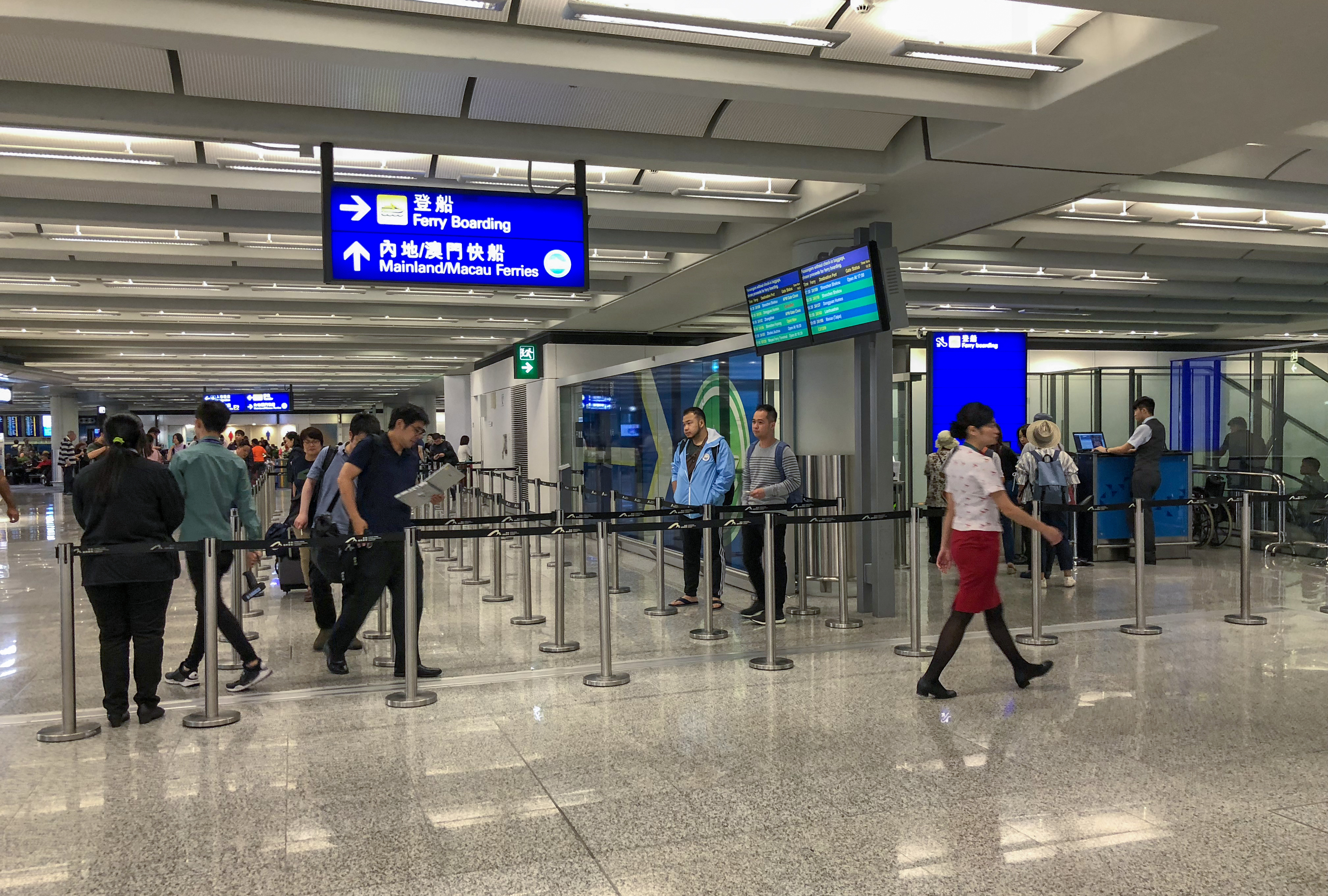 Passengers transferring ferry to mainland China or Macau should not enter the immigration area - instead, they should head for this area before immigration to board ferries.